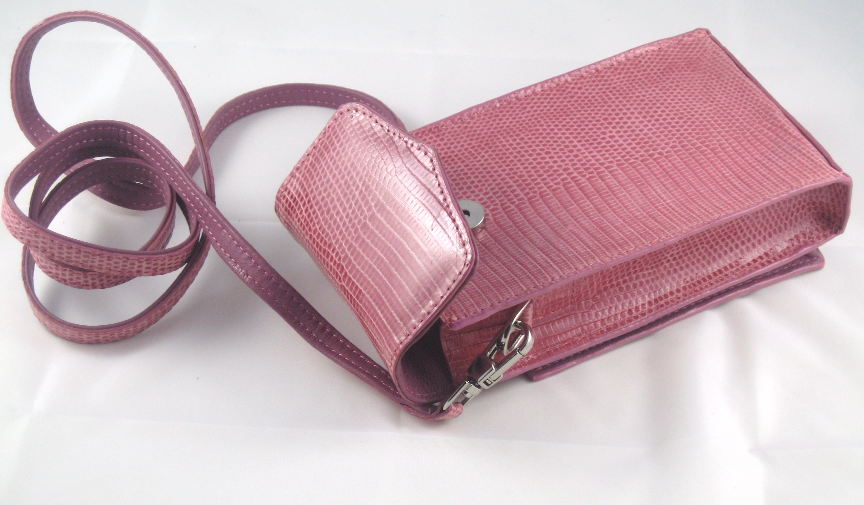 Pouch Purse from iPurse